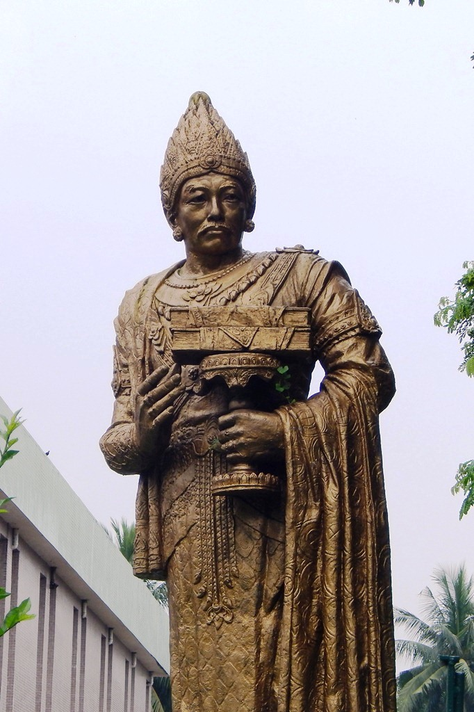 Statue of Anawrahta in front of the National Museum